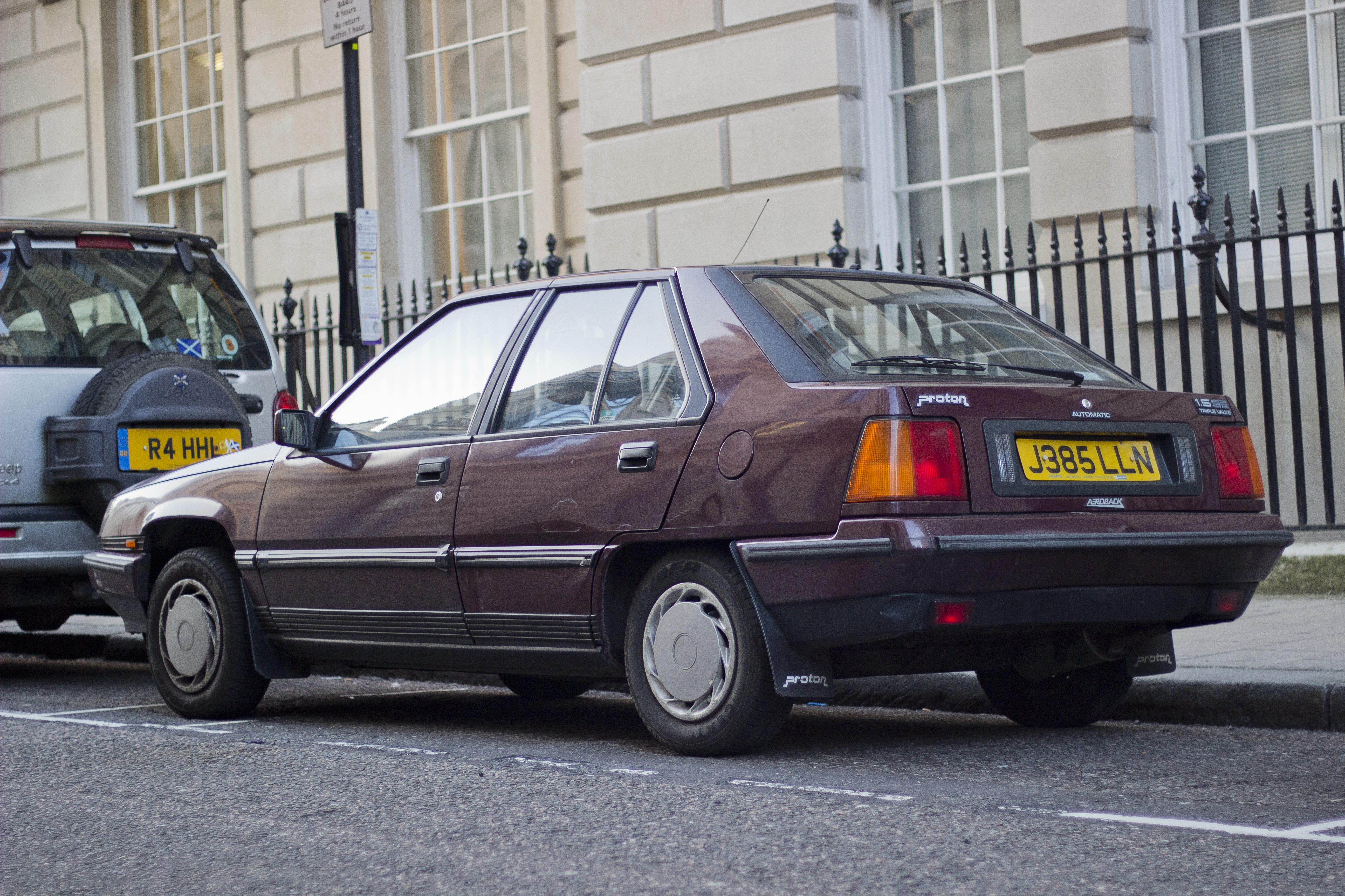 1991 Proton Aeroback SE automatic